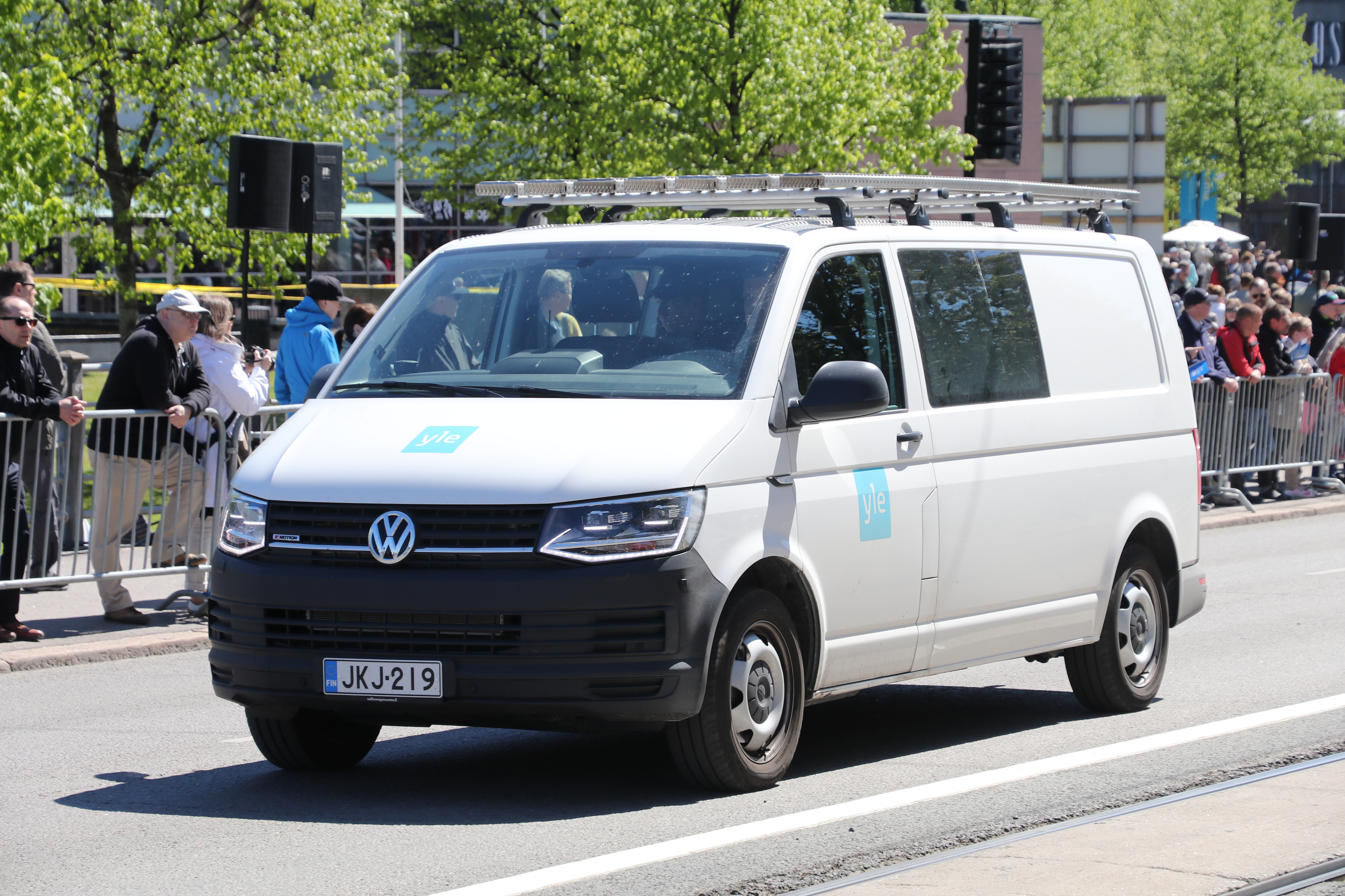 Yleisradio broadcast van arriving before Finnish defence forces flag day 2017 parade start.